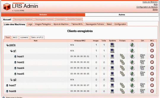 LinuxRescueServer.gif